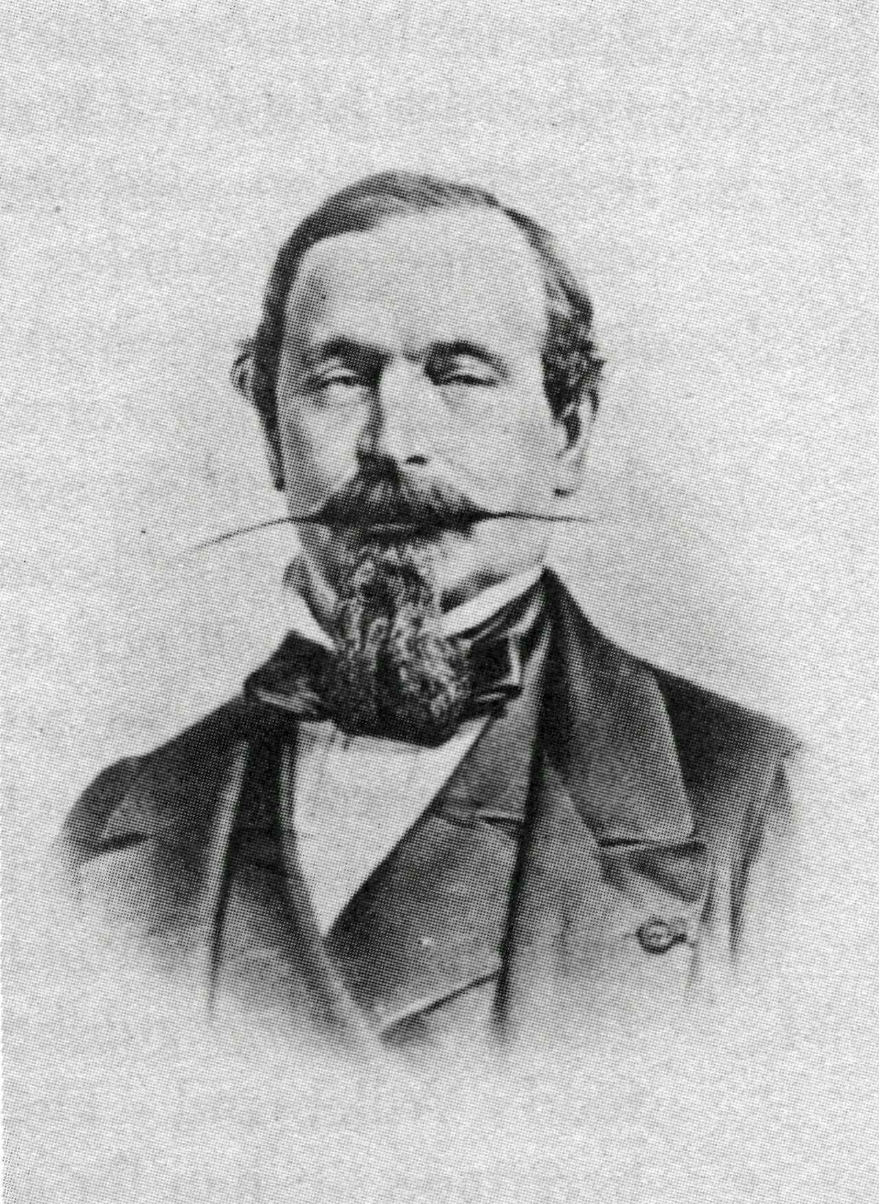 Emperor Napoleon III of France.